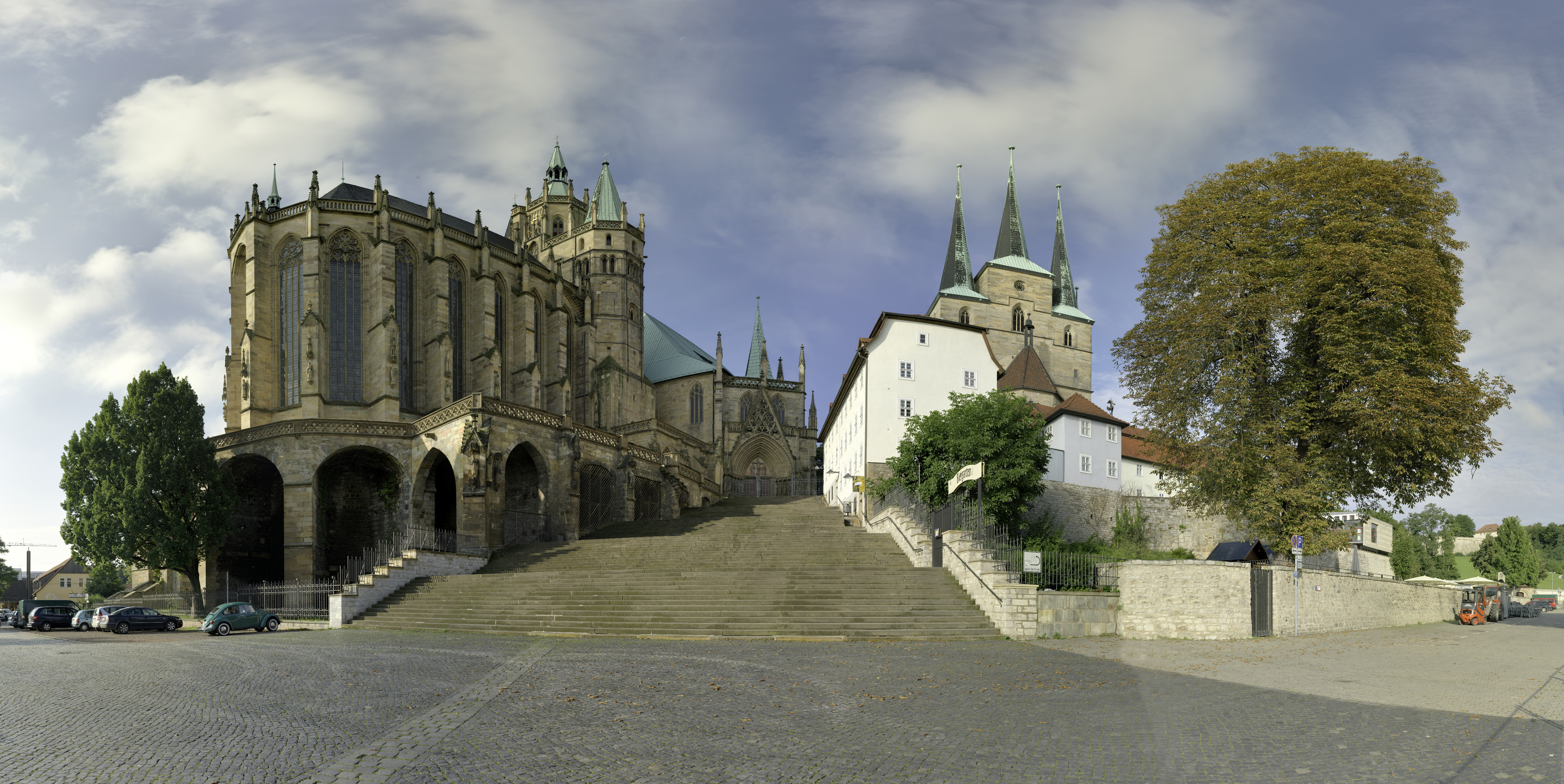 Erfurt cathedral